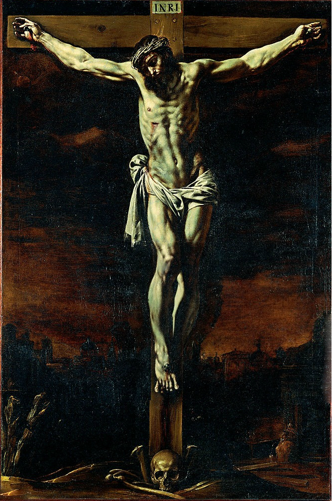 Crocifissione